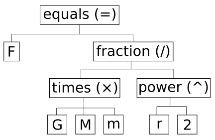 When editing an equation using the Ket algebra editor, keyboard commands and the internal representation used by the editor represents all equations as a tree data structure. This provides a simple example.